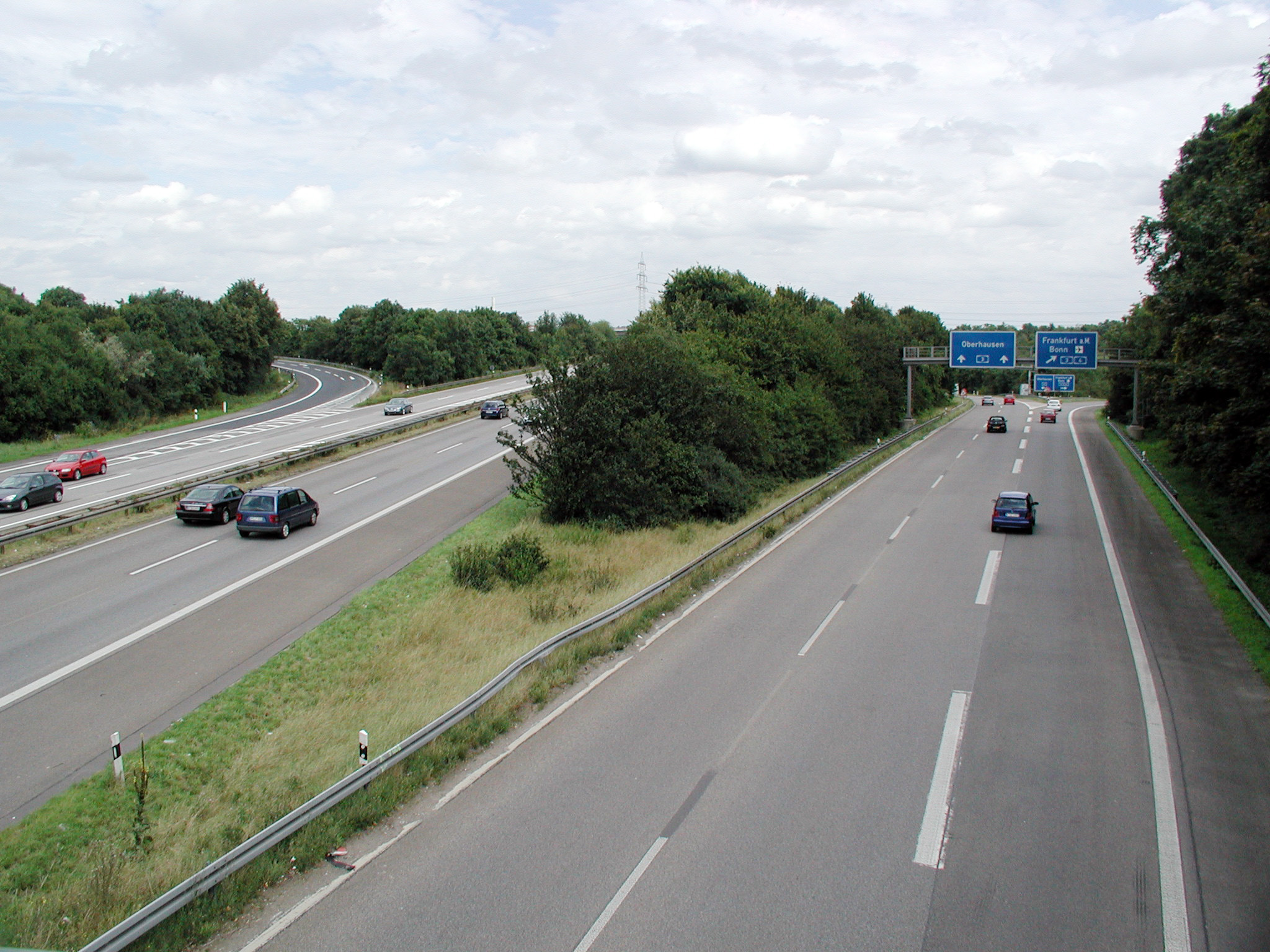 Cologne, motorway junction east